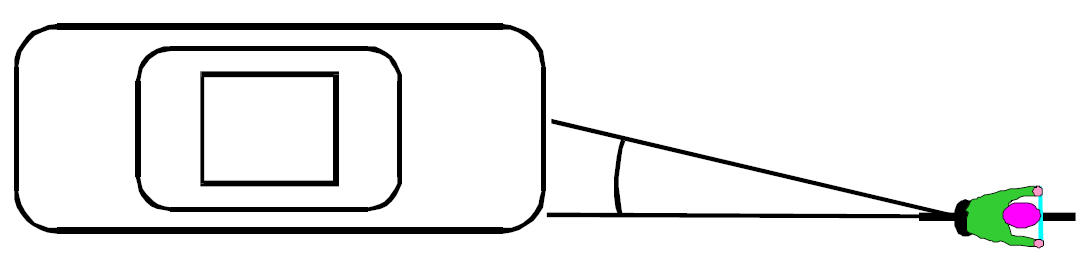 Image demonstrating the entrance angle of a retroreflector (as viewed on a bicycle from a car)